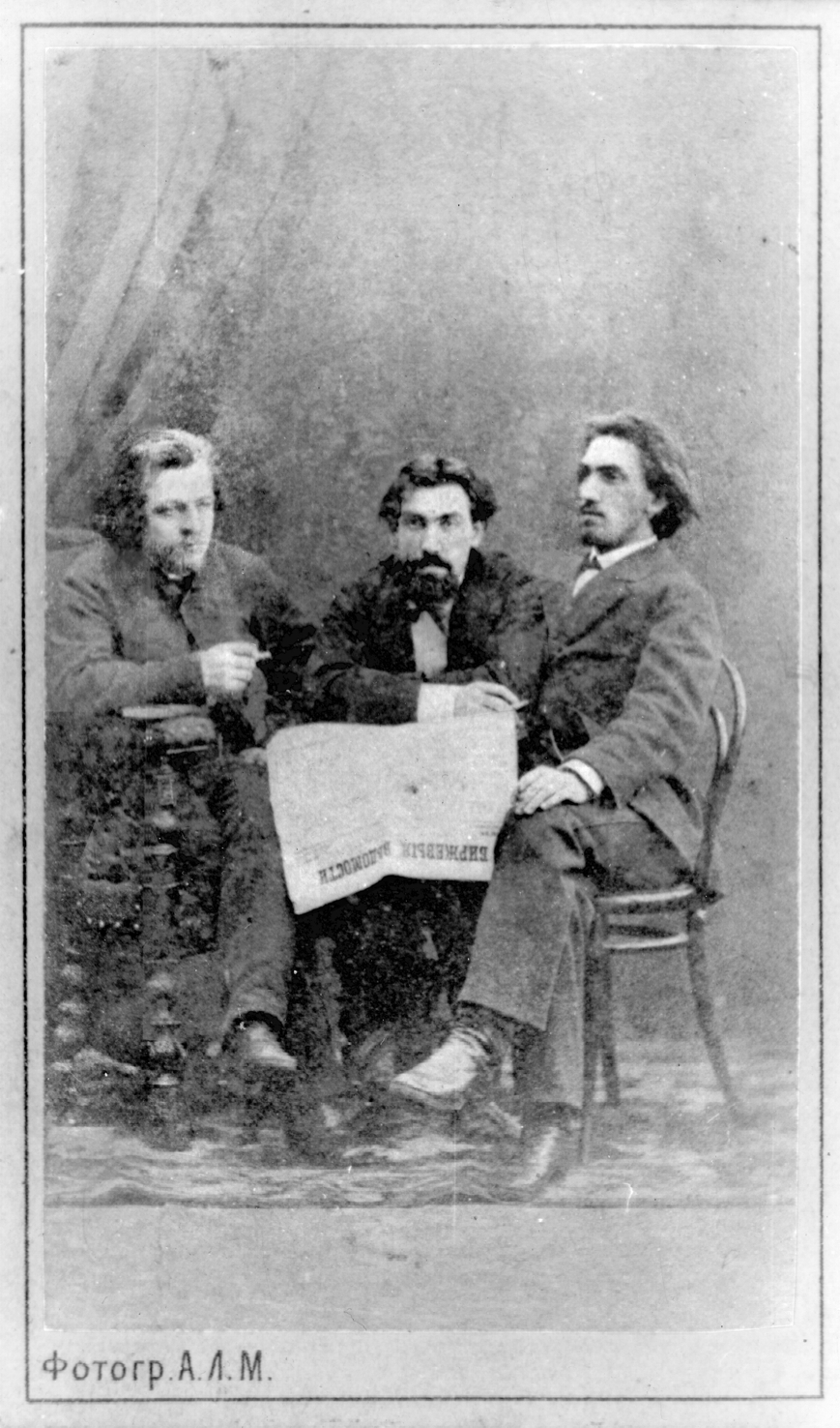 Foto: N. S. Tiutchev, E. V. & D. V. Korsch. 1874. St.Petersburg